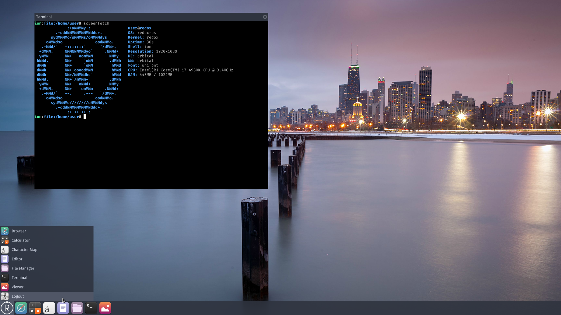 Redox OS running its window manager, Orbital, with the terminal and file viewer on the screen